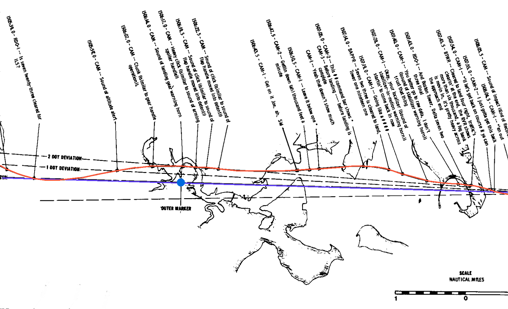 Plan view of Delta Flight 723 approach profile